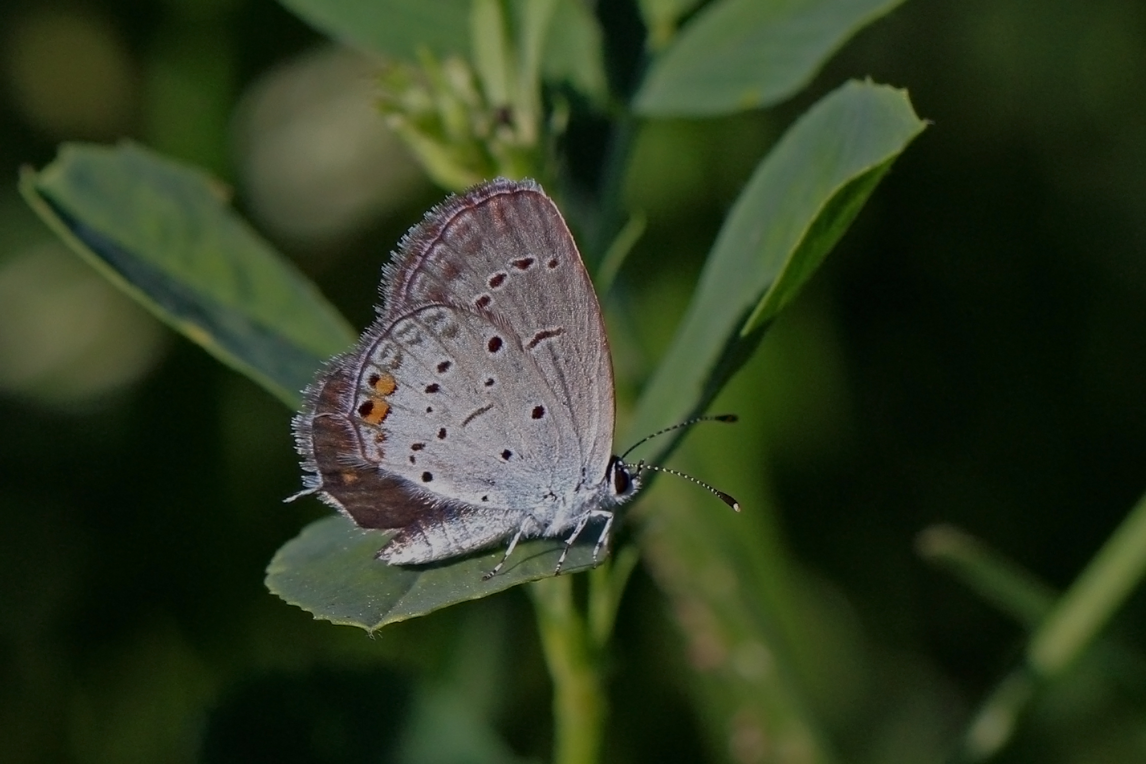 Short-tailed blue (Cupido argiades) female, Greece